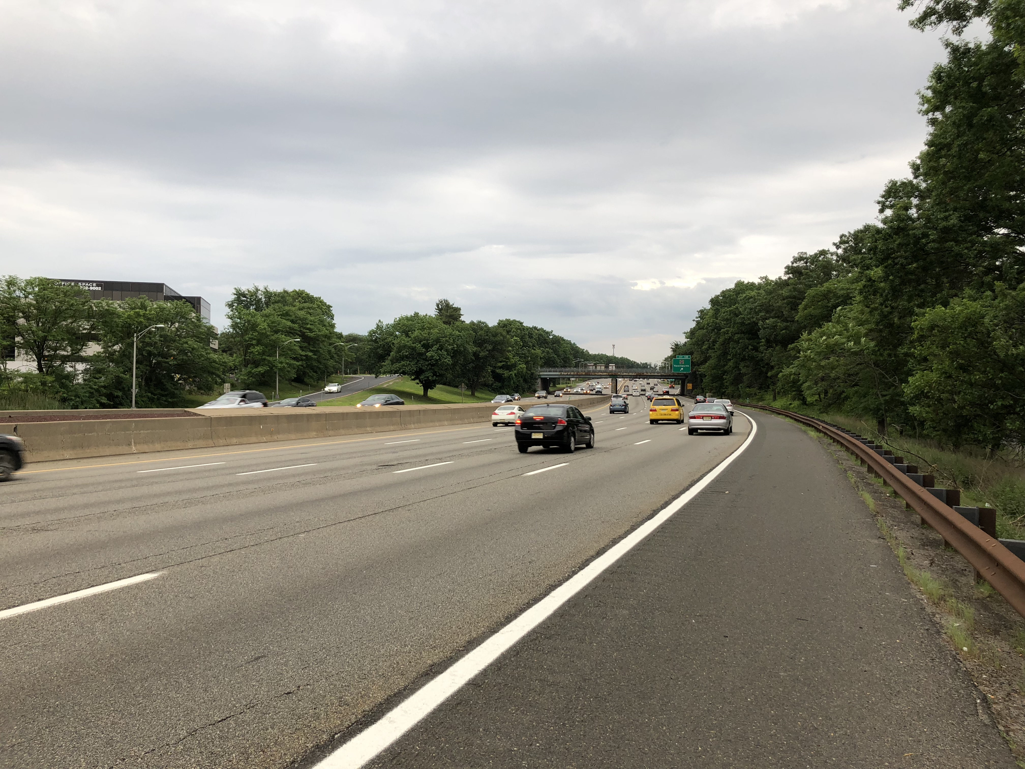 View south along New Jersey State Route 444 (Garden State Parkway) just north of Exit 138 in Kenilworth, Union County, New Jersey